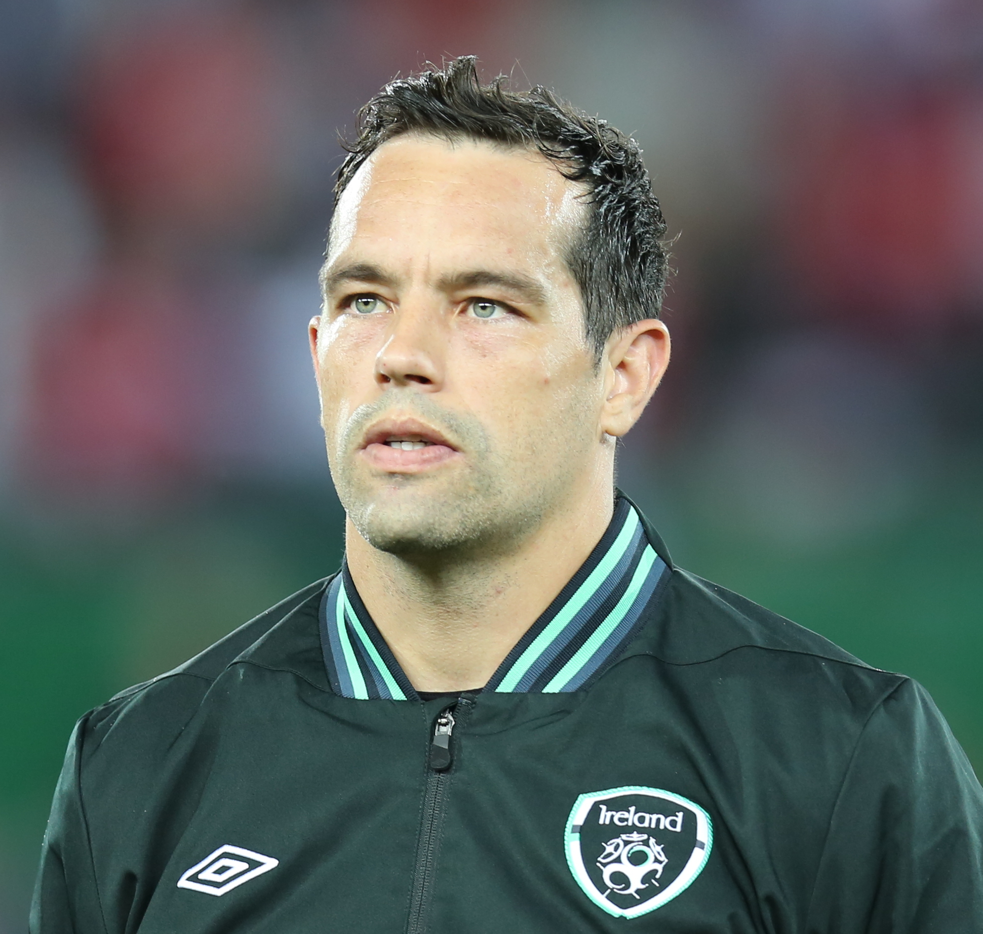 2014 FIFA World Cup qualification (UEFA), Group C: Republic of Ireland national football team at 10. September 2013 before the match against the Austria national football team (0:1) in the Ernst-Happel-Stadion in Vienna. Here: David Forde, irish goalkeeper The making of this work was supported by Wikimedia Austria. For other files made with the support of Wikimedia Austria, please see the category Supported by Wikimedia Österreich.